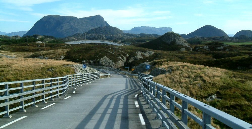 Part of the new road between Bulandet and Vaerlandet that opened year 2003.It is 5 km long whid 6 bridges.The mountain at the left of the picture is a island called Alden.